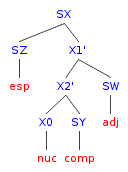 Internal structure of a phrase, according to X-bar theory.